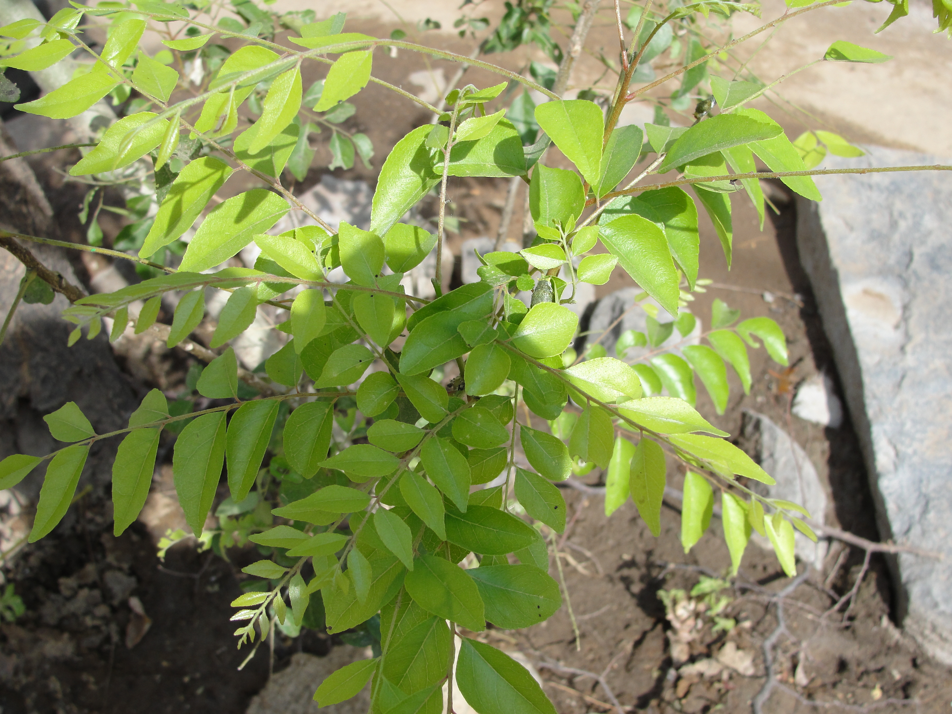 A Curry leaf plant (Murraya koenigii)